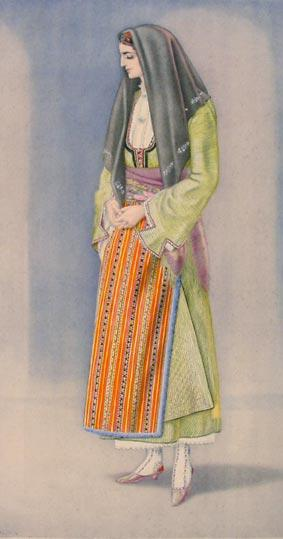 Greek Macedonian Peasant Woman's Dress (Macedonia, Chalcidice) - Greek Costume Collection by NICOLAS SPERLING (Russia 1881-1940 / act: Athens).